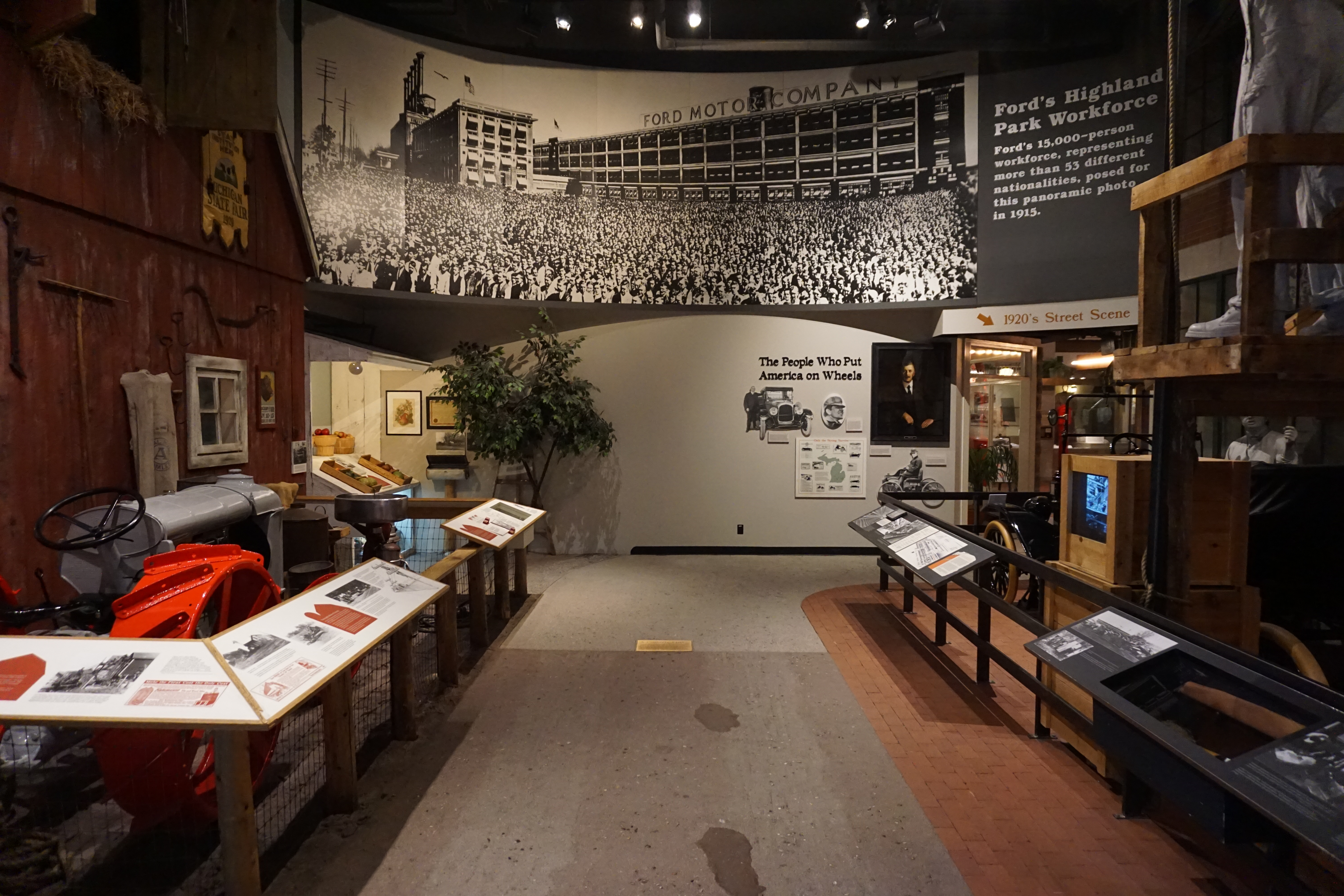 The Michigan in the 20th Century: Farm & Factory exhibit at the Michigan History Museum in Lansing, Michigan (United States).